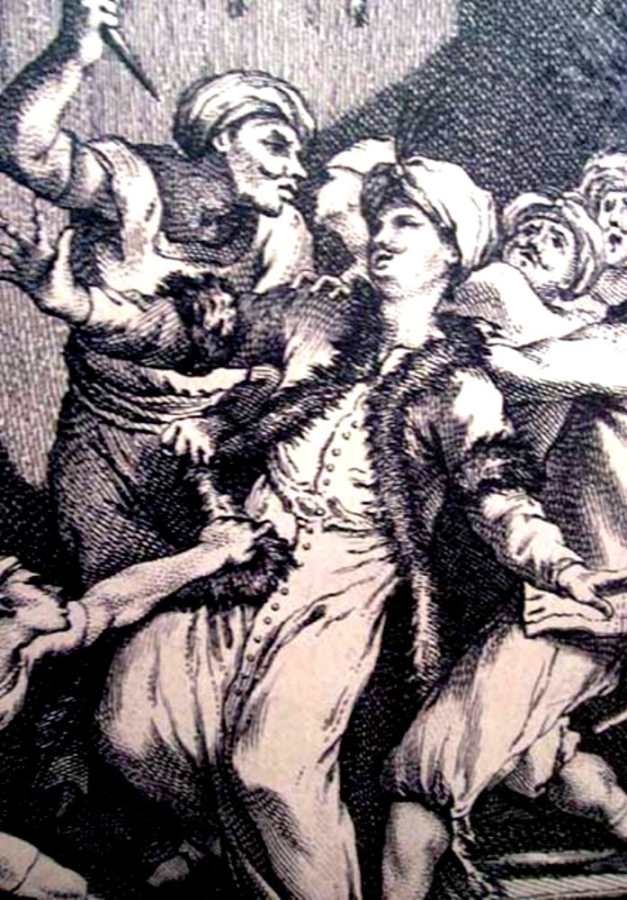 Strangle of Prince Şehzade Mustafa, son of Suleiman the Magnificent. Detail of an engraving by Cl. Duflos after a design by N. Hallé.